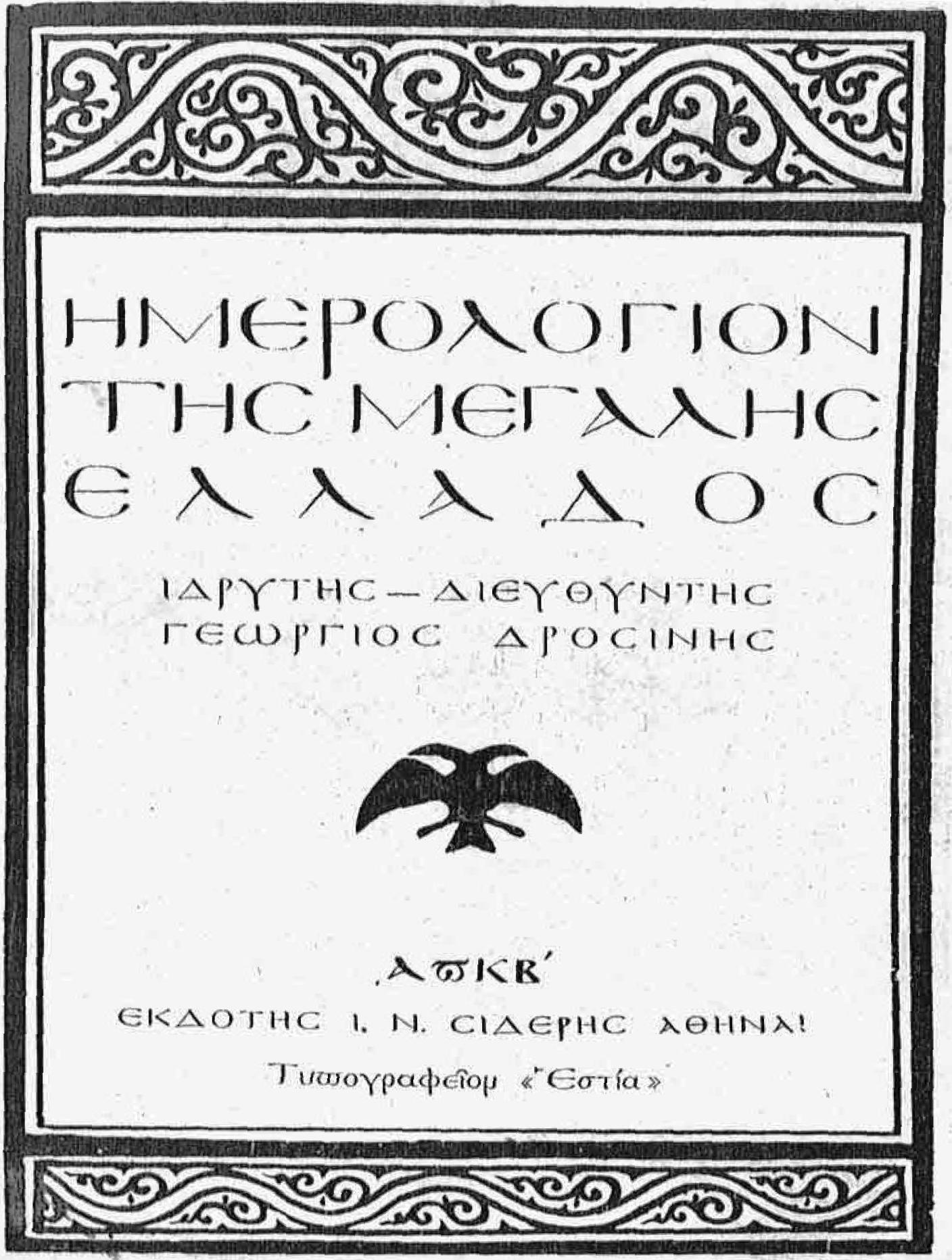 This is the cover of the first issue of the greek magazin "Ημερολόγιον της Μεγάλης Ελλάδος"